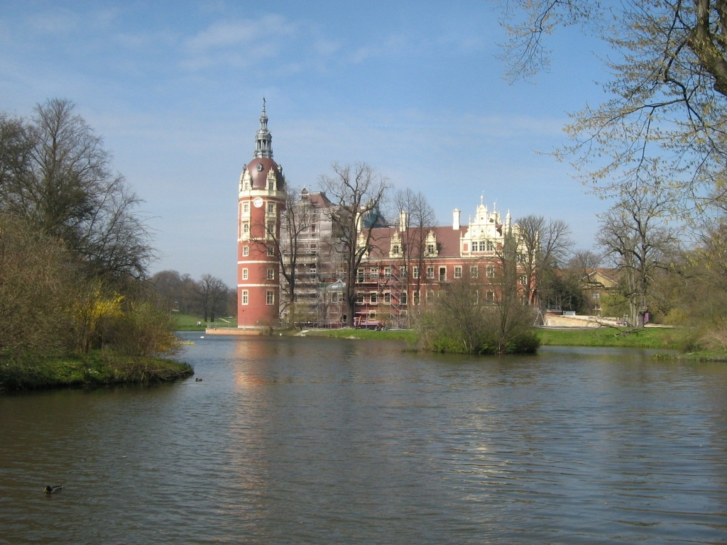 The New Palace Muskau (Bad Muskau, Saxony, Germany).